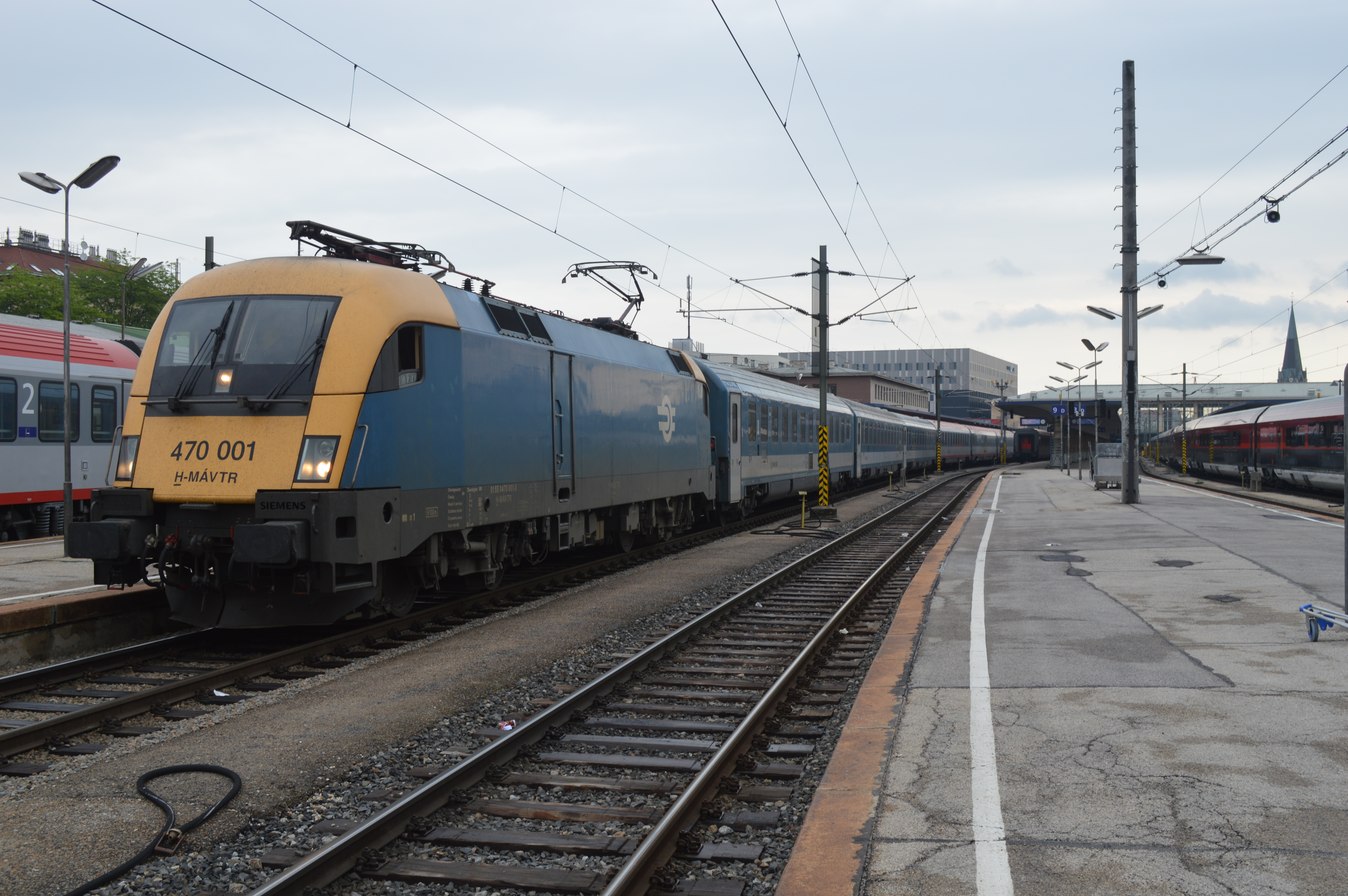 2013 Czech Republic Trip Day Two The "Wiener Walzer" overnight train from Zürich to Budapest is still booked to operate into and out of Wien Westbahnhof, mainly so as the train can detatch some couchette and sleeping cars and pick up daytime cars for the final run to Budapest. H-MÁV "Taurus" loco 470.001 takes over the train on 12 May 2013 - EN467, 22:40 Zürich HB to Budapest Keleti pu. The operation of this train may well change once the newly built Wien Hbf is fully up and running. Wien Westbahnhof is set to loose most if not all of its long distance trains as a result.